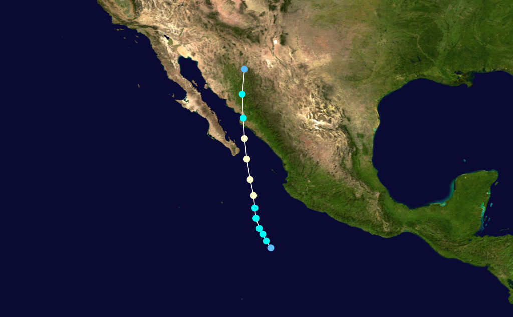 Hurricane Ismael (1995) track. Uses the color scheme from the Saffir-Simpson Hurricane Scale.